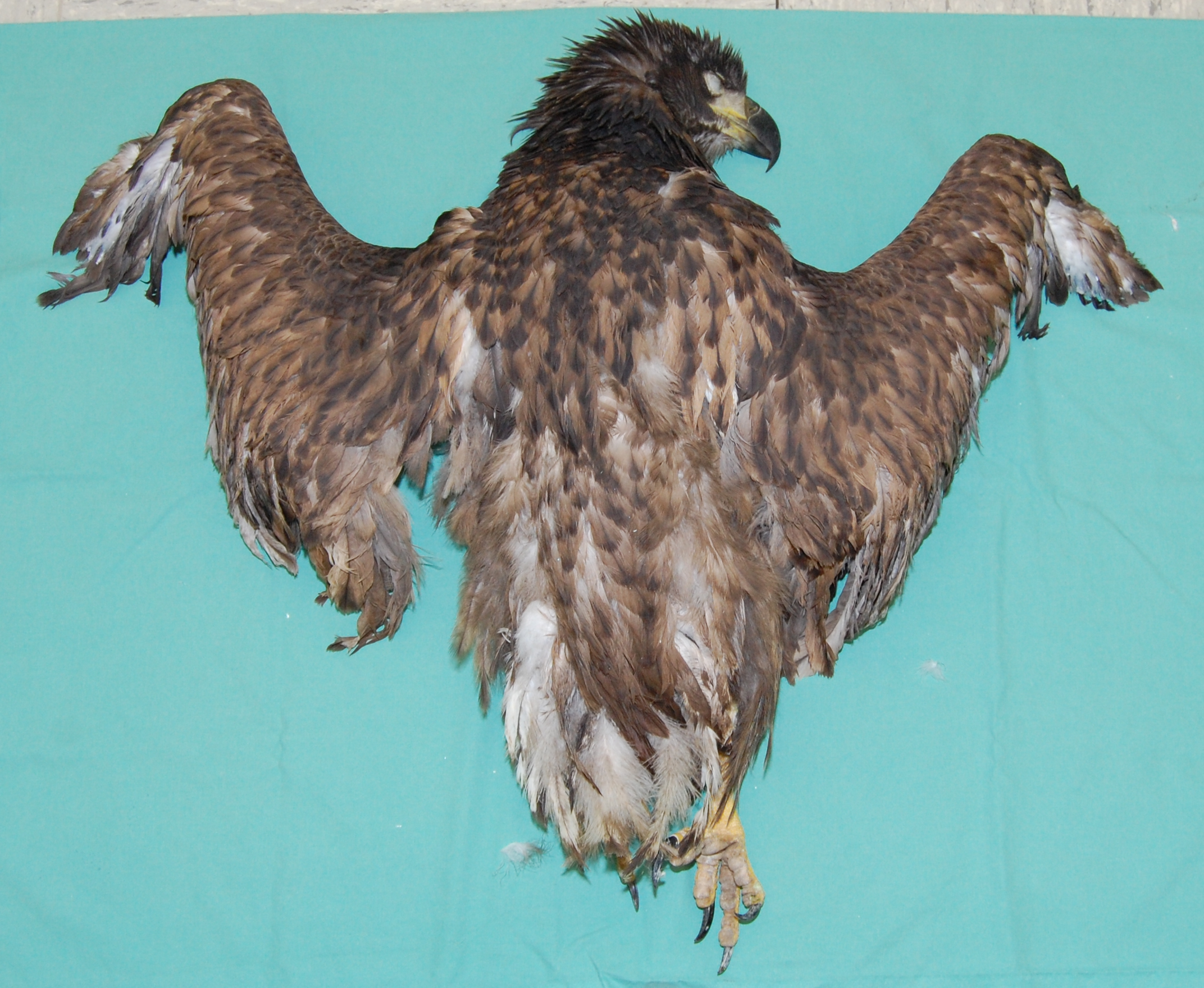 Recently fledged White-tailed Sea-Eagle (Haliaeetus albicilla), with "Pinching Off"-syndrome. All primaries and rectrices are lost. Found alive 1.10.1009 in county Parchim, Mecklenburg-Vorpommern, Germany. The bird was euthanazed.